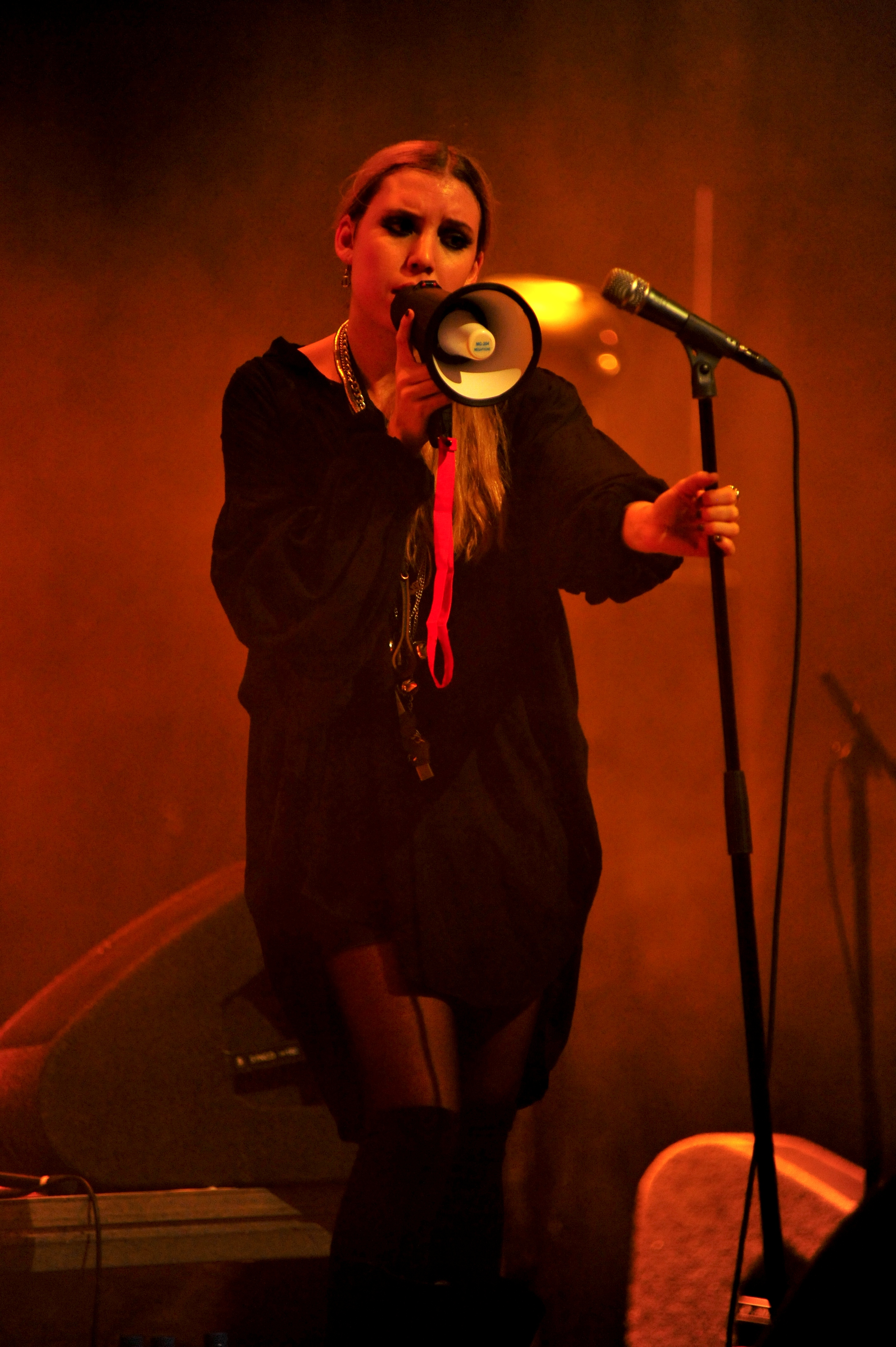 Lykke Li peforming at Paradiso Weteringschans 6-8 1017 SG Amsterdam Netherlands.